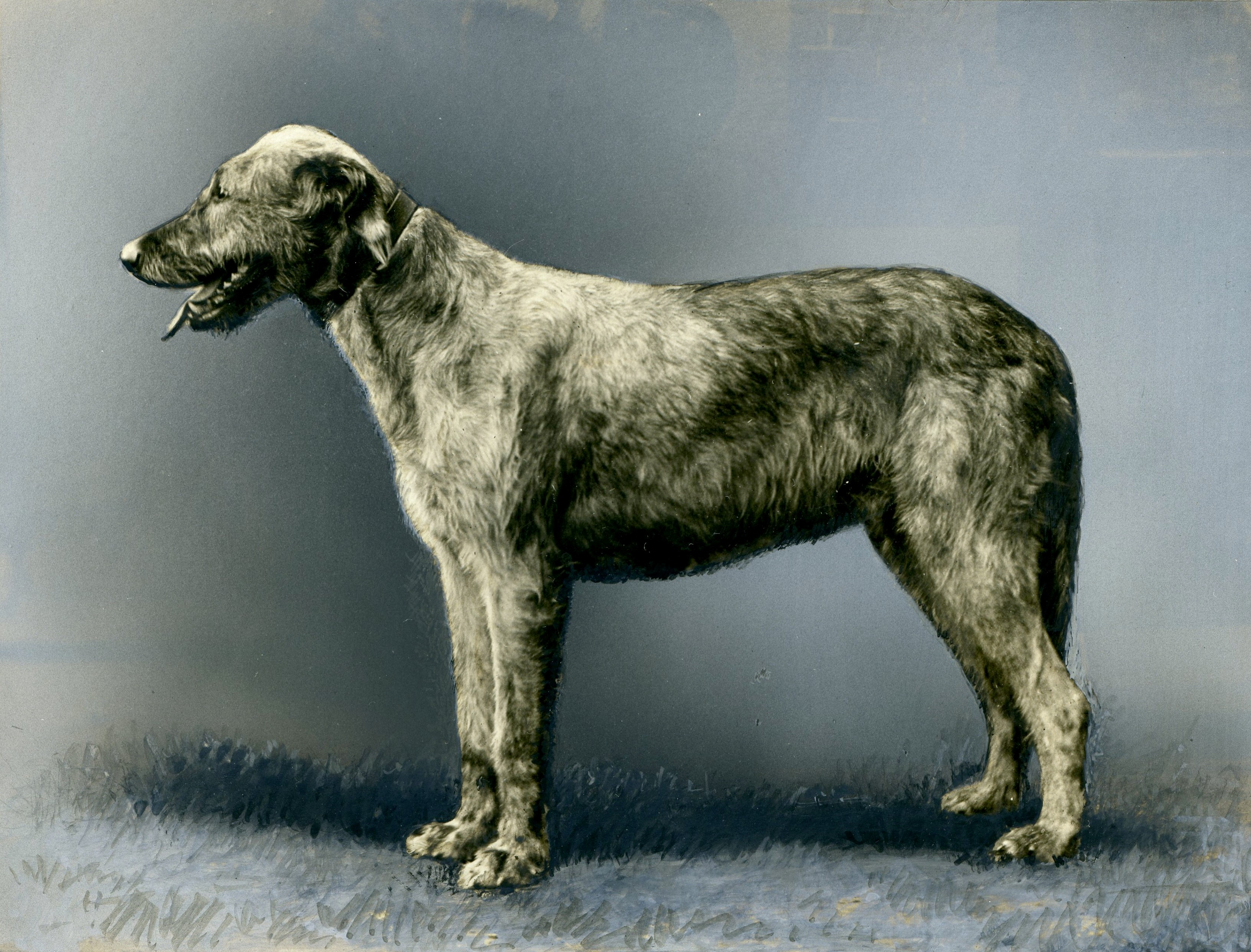 Scope and content: Original caption: Irish Wolfhound